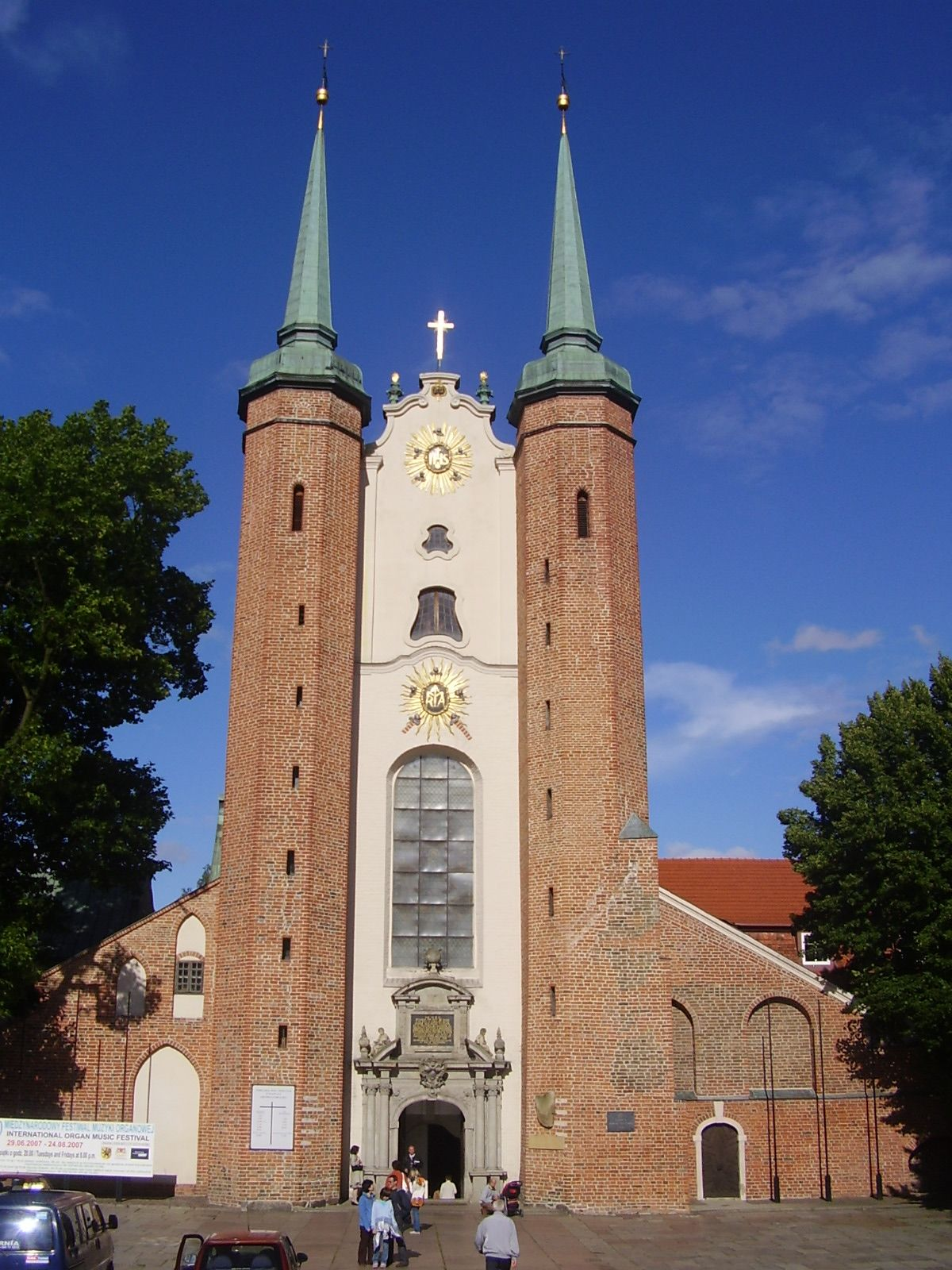 Oliva Cathedral in Gdańsk, Poland